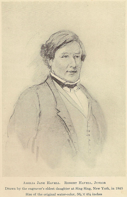 Portrait of Robert Havell, Junior, by his eldest daughter Amelia Jane Havell, at Sing Sing (Ossining), New York, 1845.